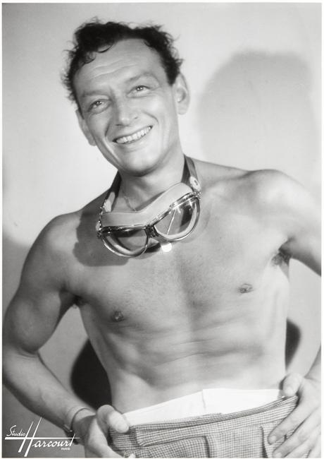 Studio photo